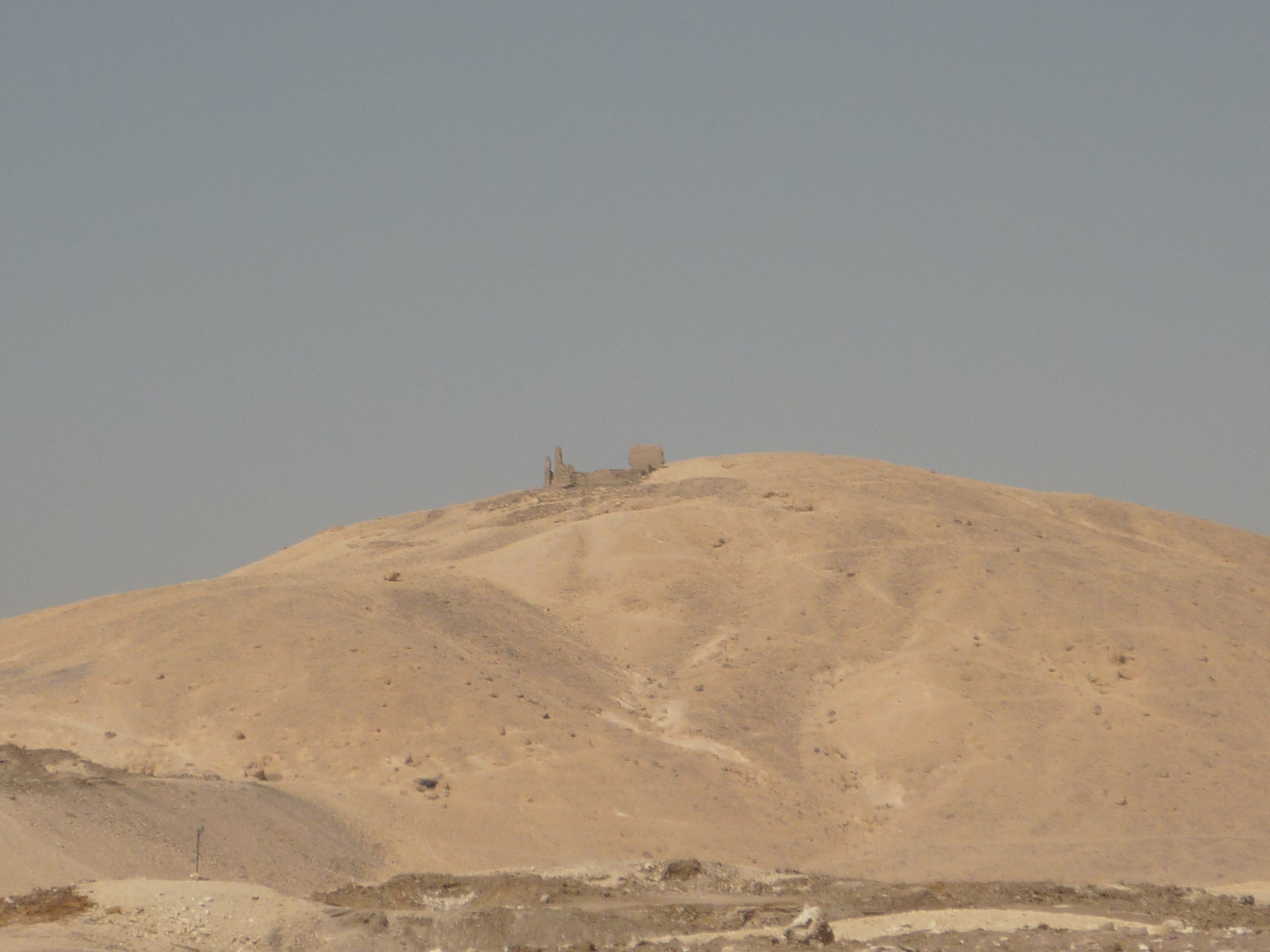 Ruin above Valley of the Nobles, Theban Necropolis, Egypt